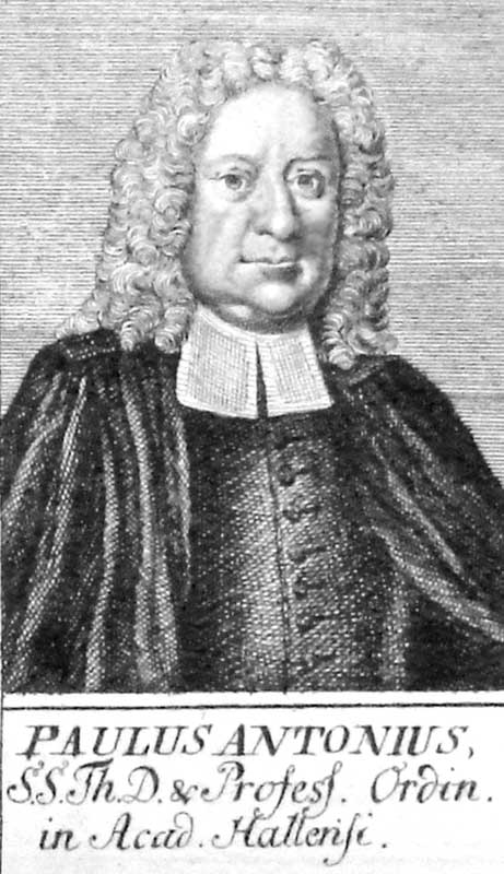 Paul Anton (1661-1730) Protestant theologian from Germany